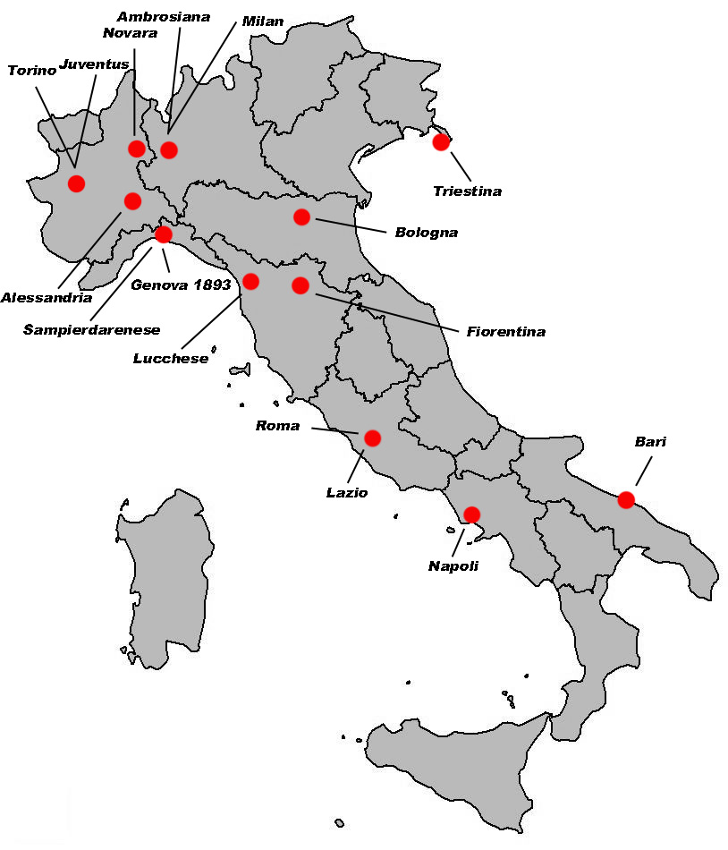 Author: User:CapPixel Source: File:Italy template.png Tag: Serie A 1936-37 team locations